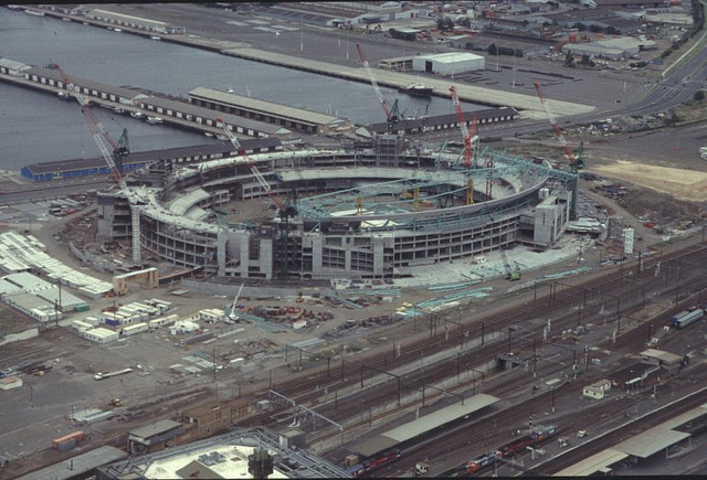 Docklands Stadium, Melbourne, Australia under construction Christmas 1998. Named as Colonial Stadium, then Telstra Dome, and (from March 2009) Etihad Stadium